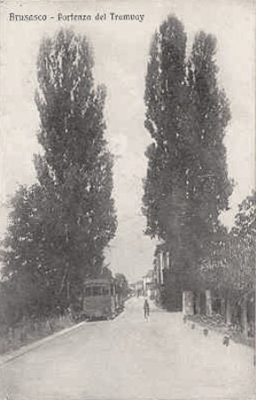 Brusasco, tramway